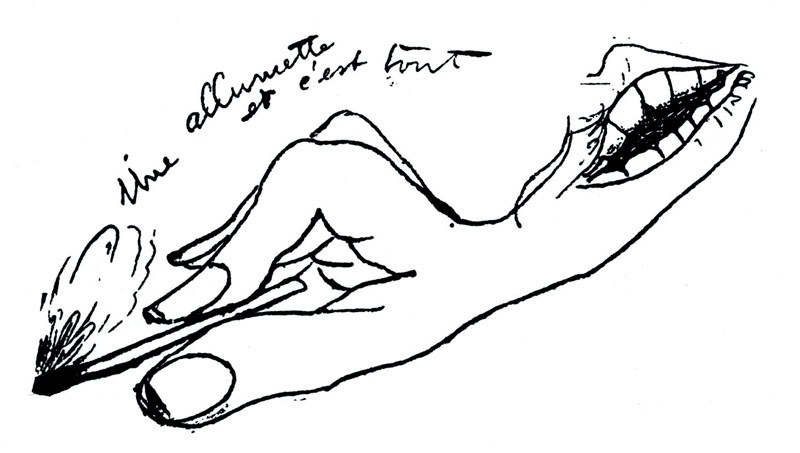 Illustration de Mayo pour Le Grand Jeu